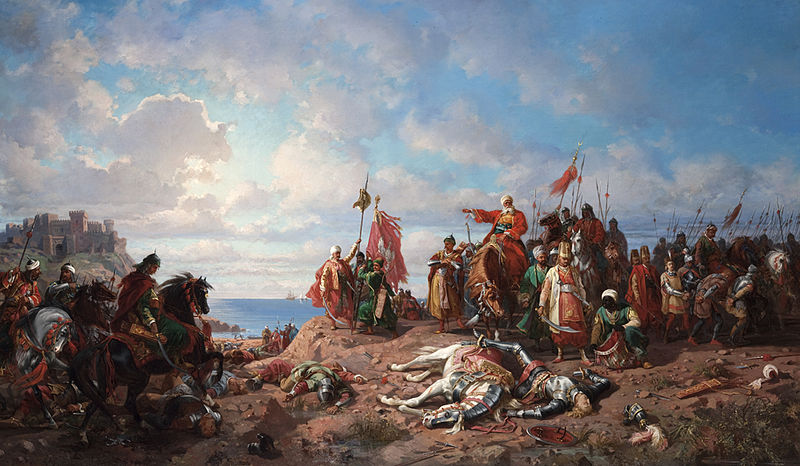 Stanisław Chlebowski, "The death of king Wladyslaw II at Varna", oil on canvas, photo National Museum in Krakow